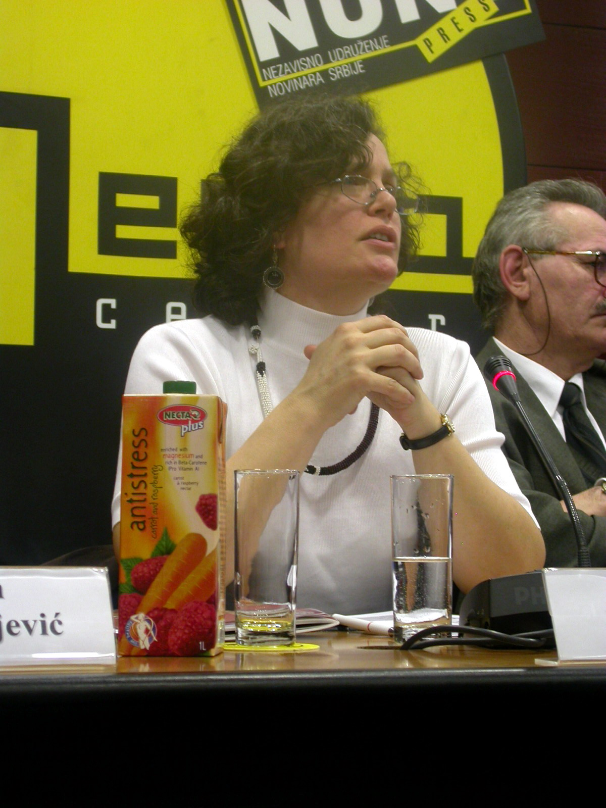 Kori Udovički